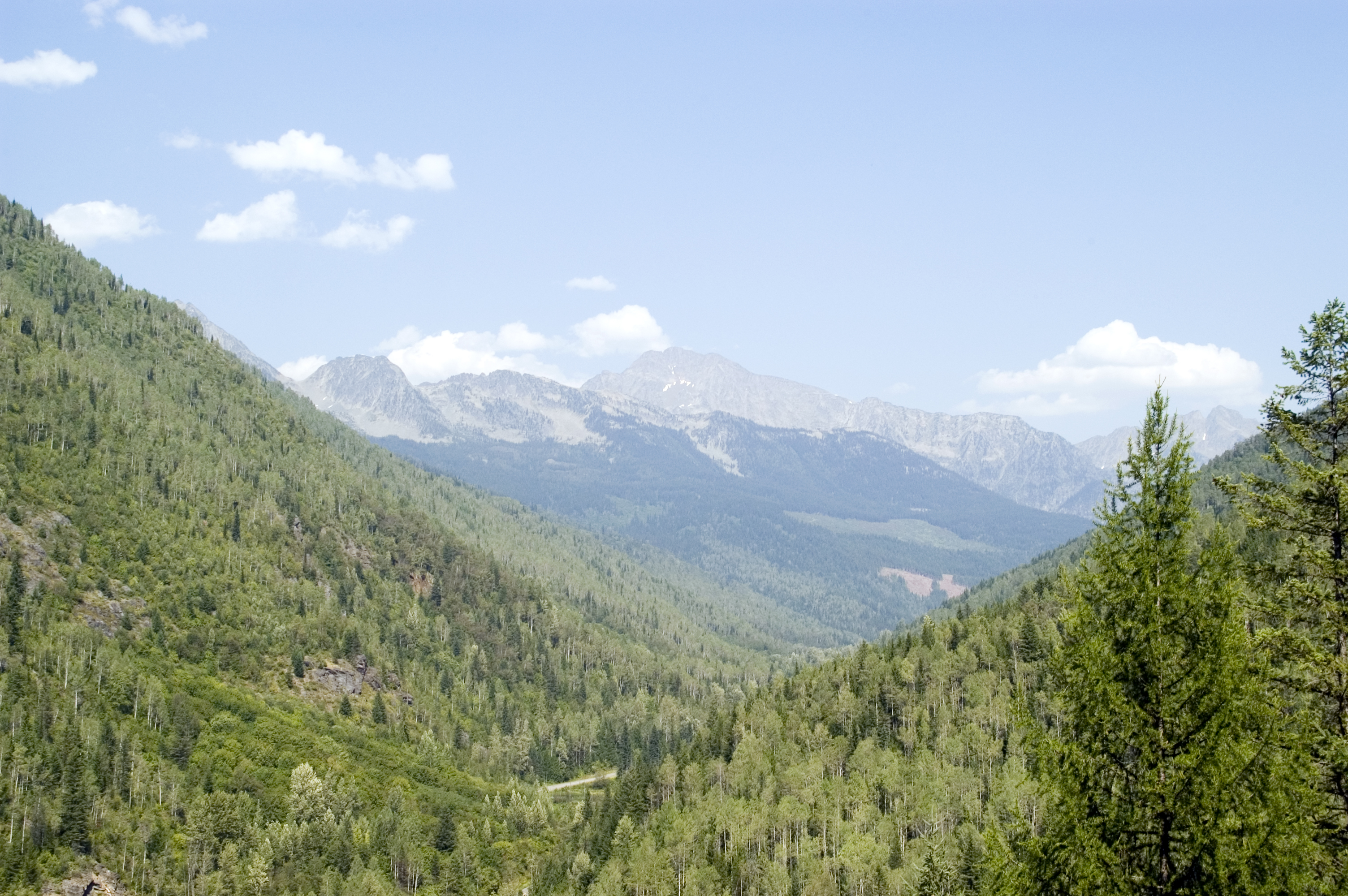 A Mountain - From the K&S